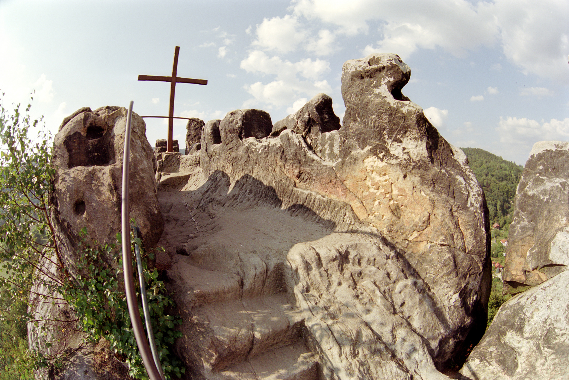 own picture, taken in late summer 2004 castle Vranov in Czech Republic the top of the castle